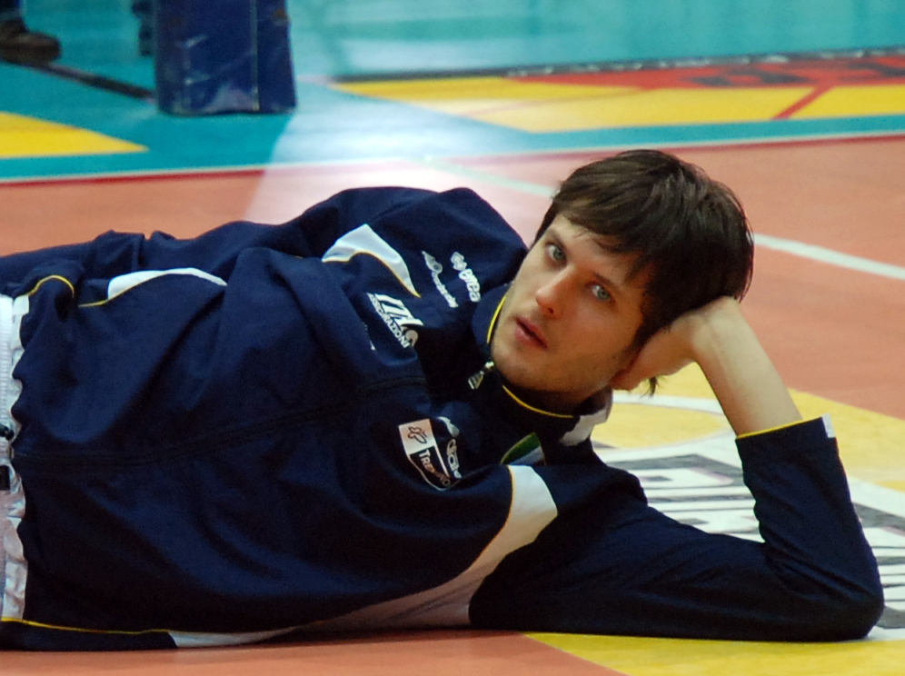 I took this picture during a volleyball match in Piacenza